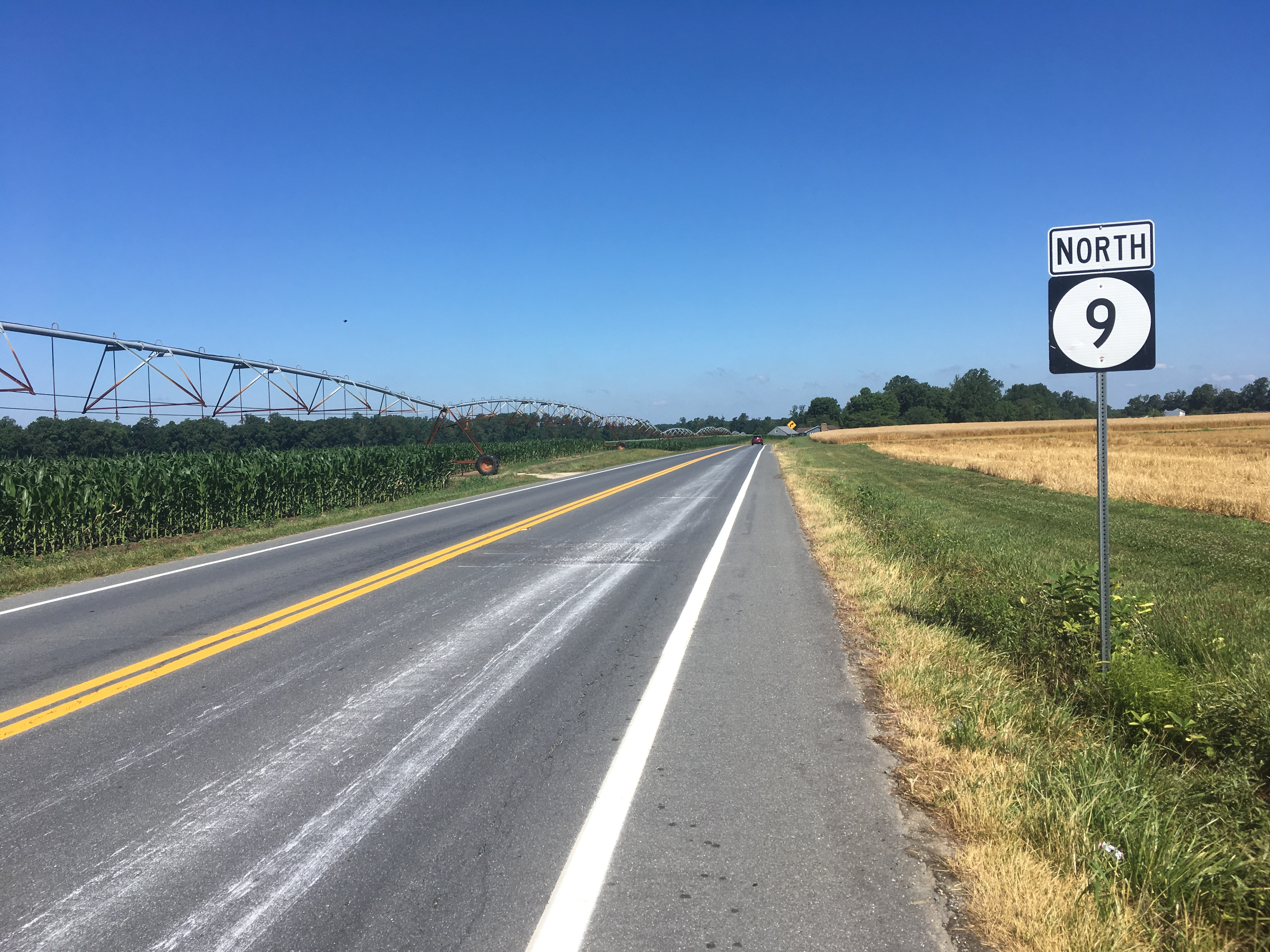 Northbound Delaware Route 9 (Bayside Drive) past the intersection with Persimmon Tree Lane northeast of Dover, Delaware